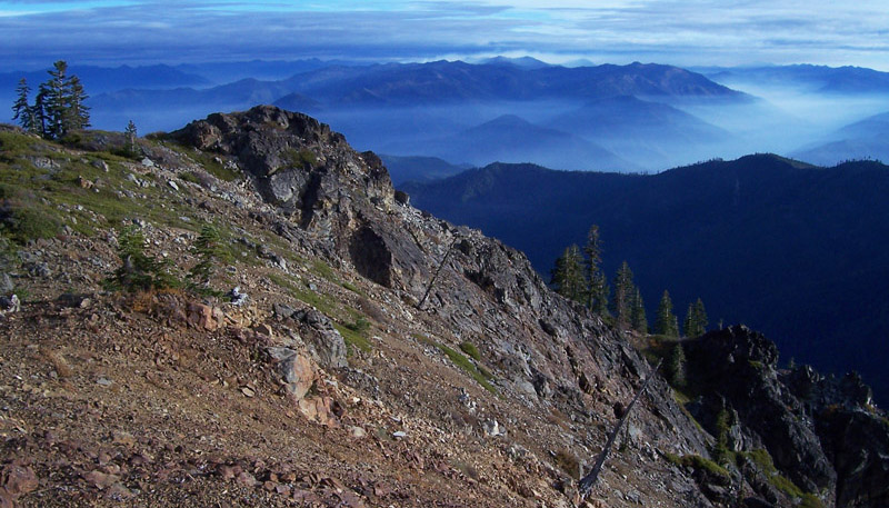 View from Salmon Mountain as a wildfire burns in the Salmon River (summer 2007). The Salmon Mountains are a sub-range within the Klamath Mountains System.